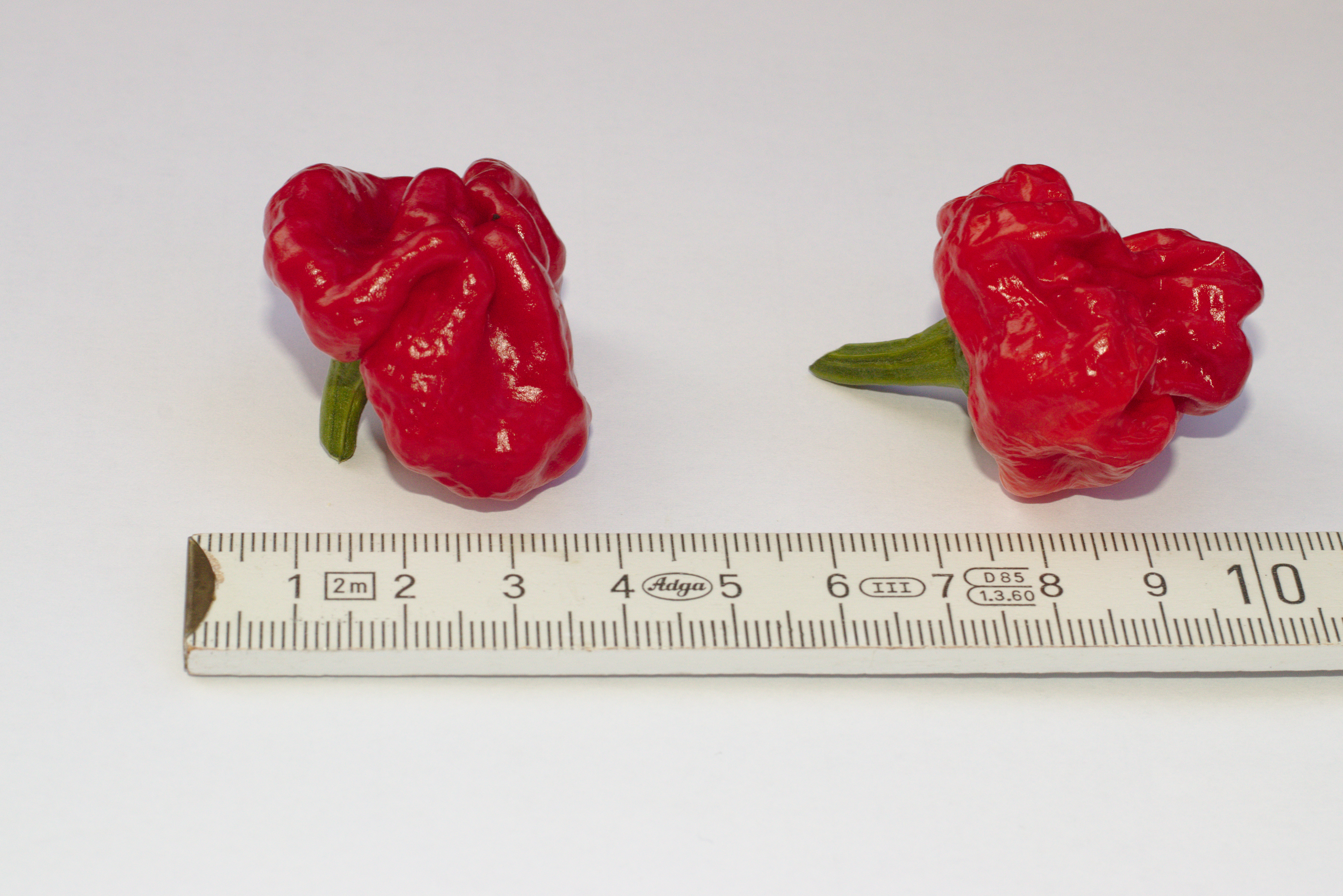 Ripe Scotch bonnet reds with centimeter scale